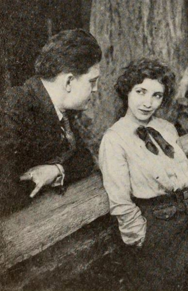 Still from the American romantic comedy film The Little Boss (1919) with an unidentified actor and Bessie Love, on page 36 of the June 7, 1919 Exhibitors Herald